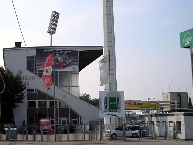 Grandstand of the Georg Melches football stadium at Essen